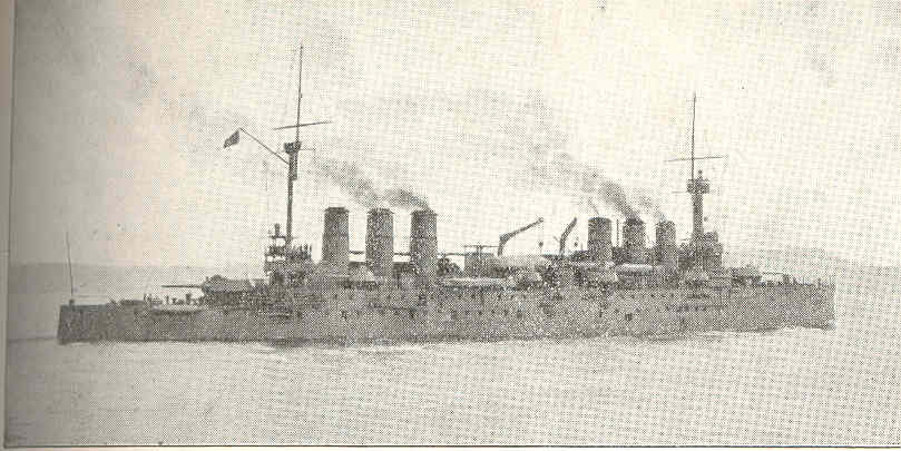 Subject: Cruisers (Warships), Battleships, Ernest-Renan (Battleship) Tag: Vessels